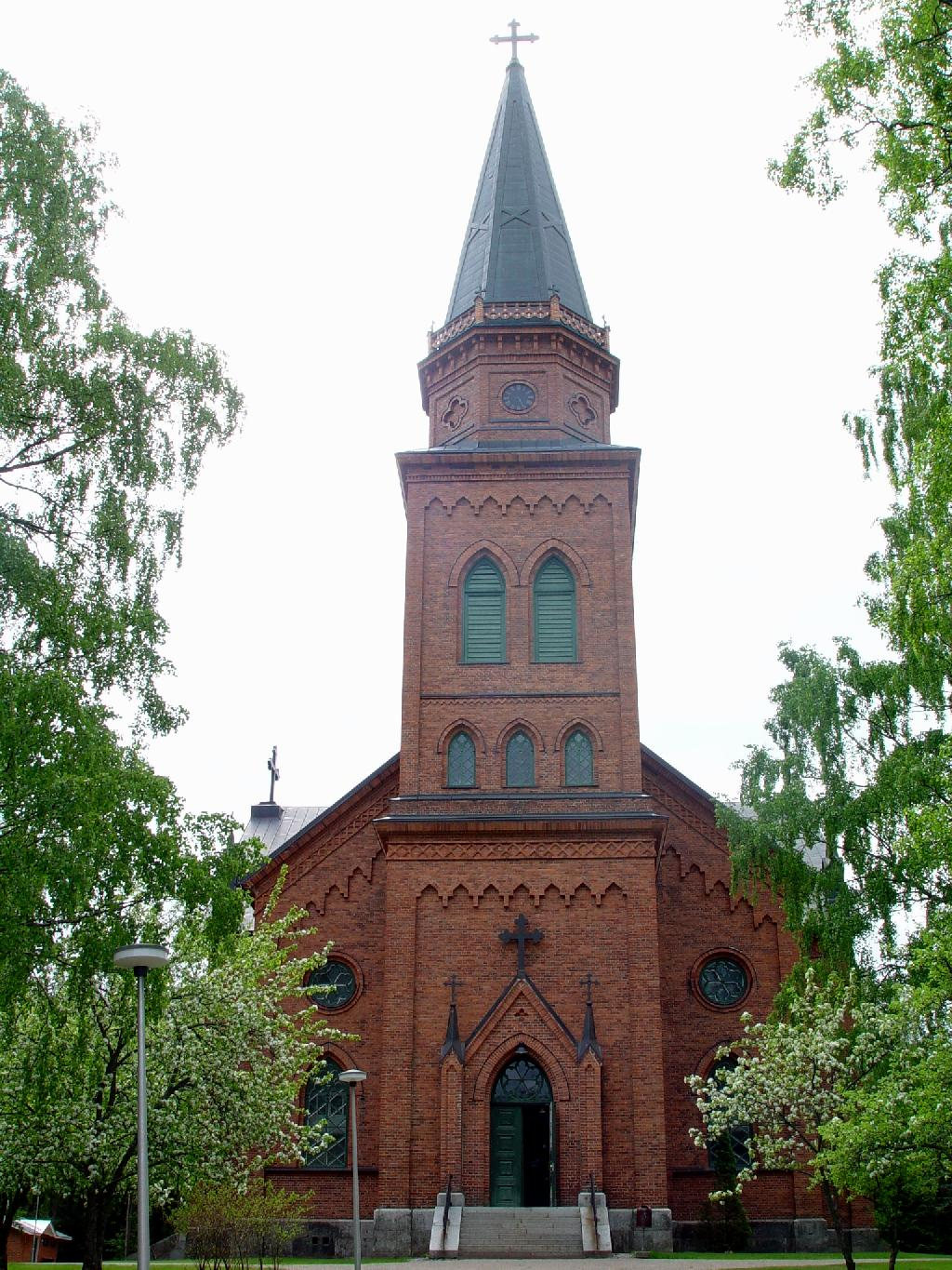 Lutheran church of Asikkala, Finland